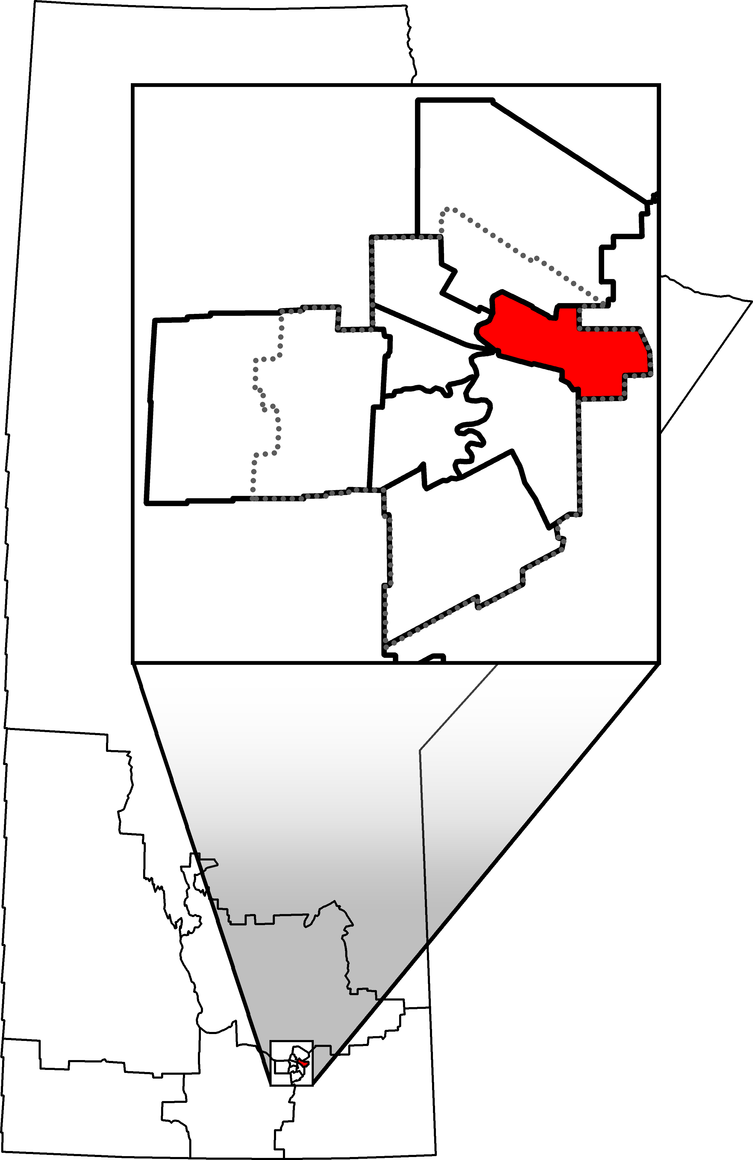 Federal Electoral District in Manitoba, Canada as of the 2013 Representation Order.